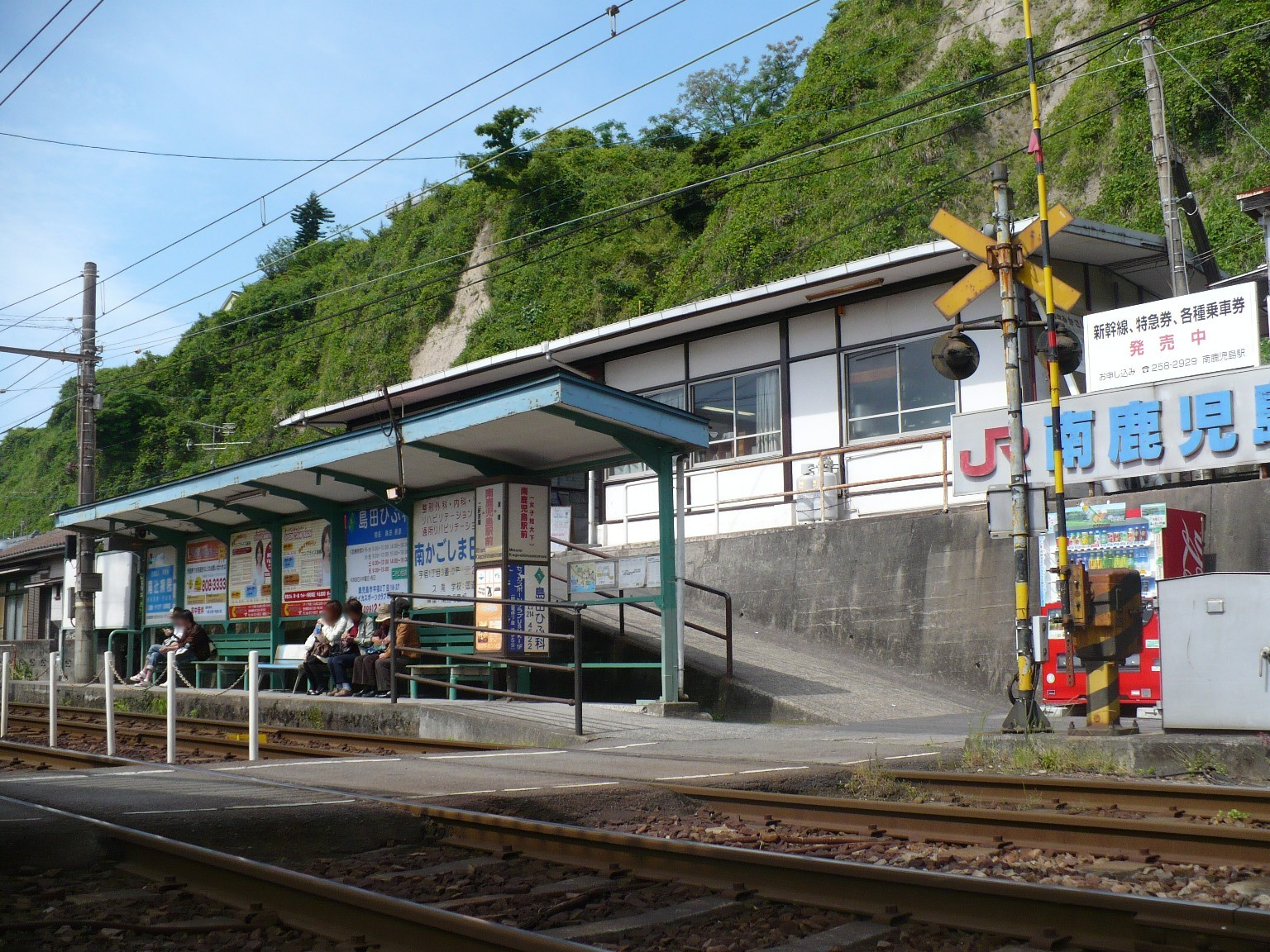 Minami-Kagoshima station of Kyushu Railway Company (JR Kyushu) Ibusuki-Makurazaki line, and Minami-Kagoshima-Ekimae tramstop of Kagoshima city transportation bureau, Kagoshima city Kagoshima prefecture Japan